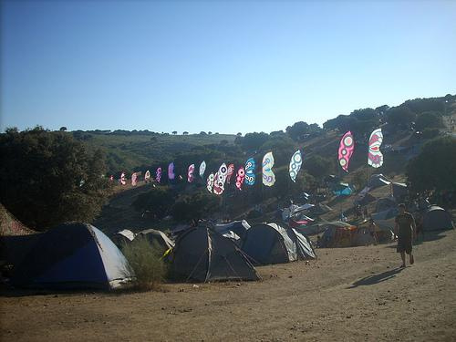 follow the butterflies!